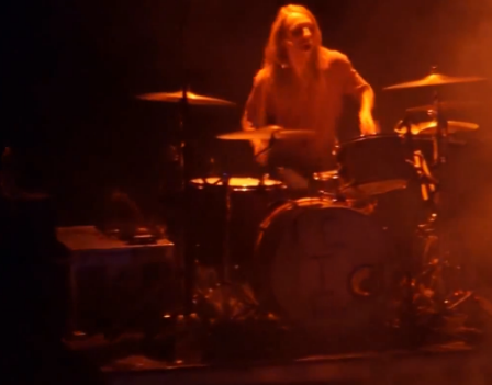 Kyle Davis - Dec. 1, 2014 - LC Pavilion - Columbus, Ohio - December Tour